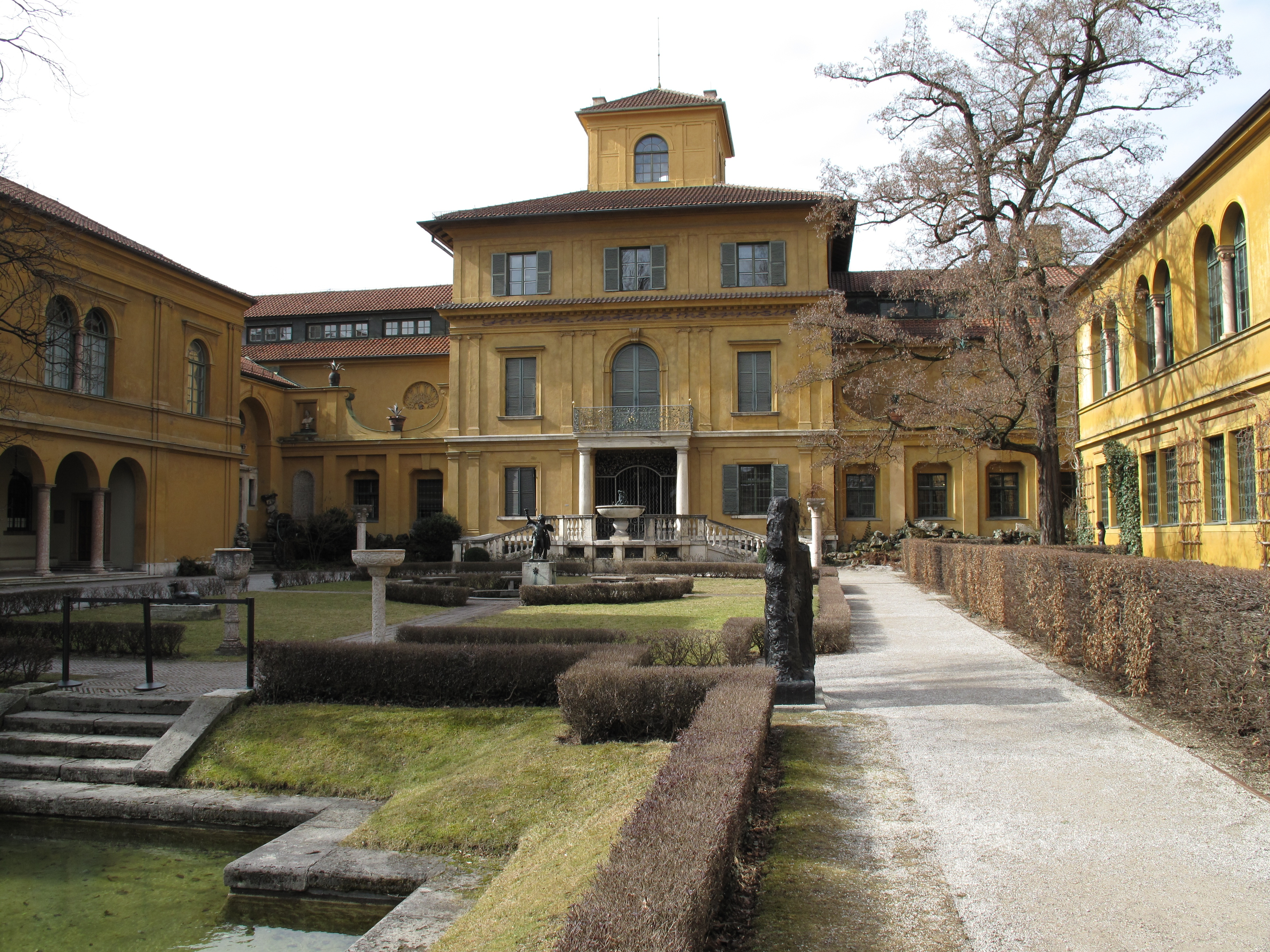 Lenbachhaus, Munich, Maxvorstadt, Kunstareal